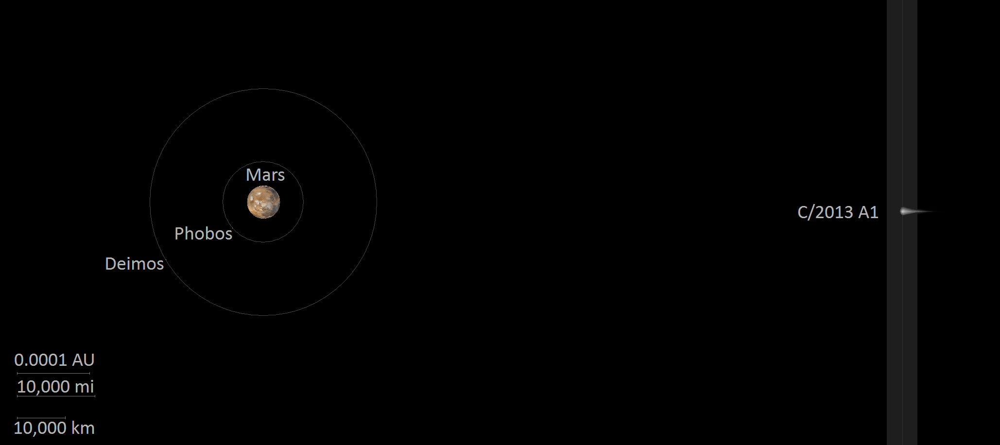 The October 2014 close-approach of comet Siding Spring (C/2013 A1) to scale with Mars and Phobos & Deimos. The grey area is defined by the inner and outer limits of the comet's closest approach, and the slightly brighter line is the nominal close-approach distance as of August 6th, 2014. As the two satellites of Mars are each only several kilometers in diameter, they are too small to be seen in detail on this diagram, and as a result are single points of light. The relative locations of the Martian satellites, size and direction of the tail of C/2013 A1, and appearance of Mars are NOT to scale. A pixel represents 100 kilometers (62 miles).